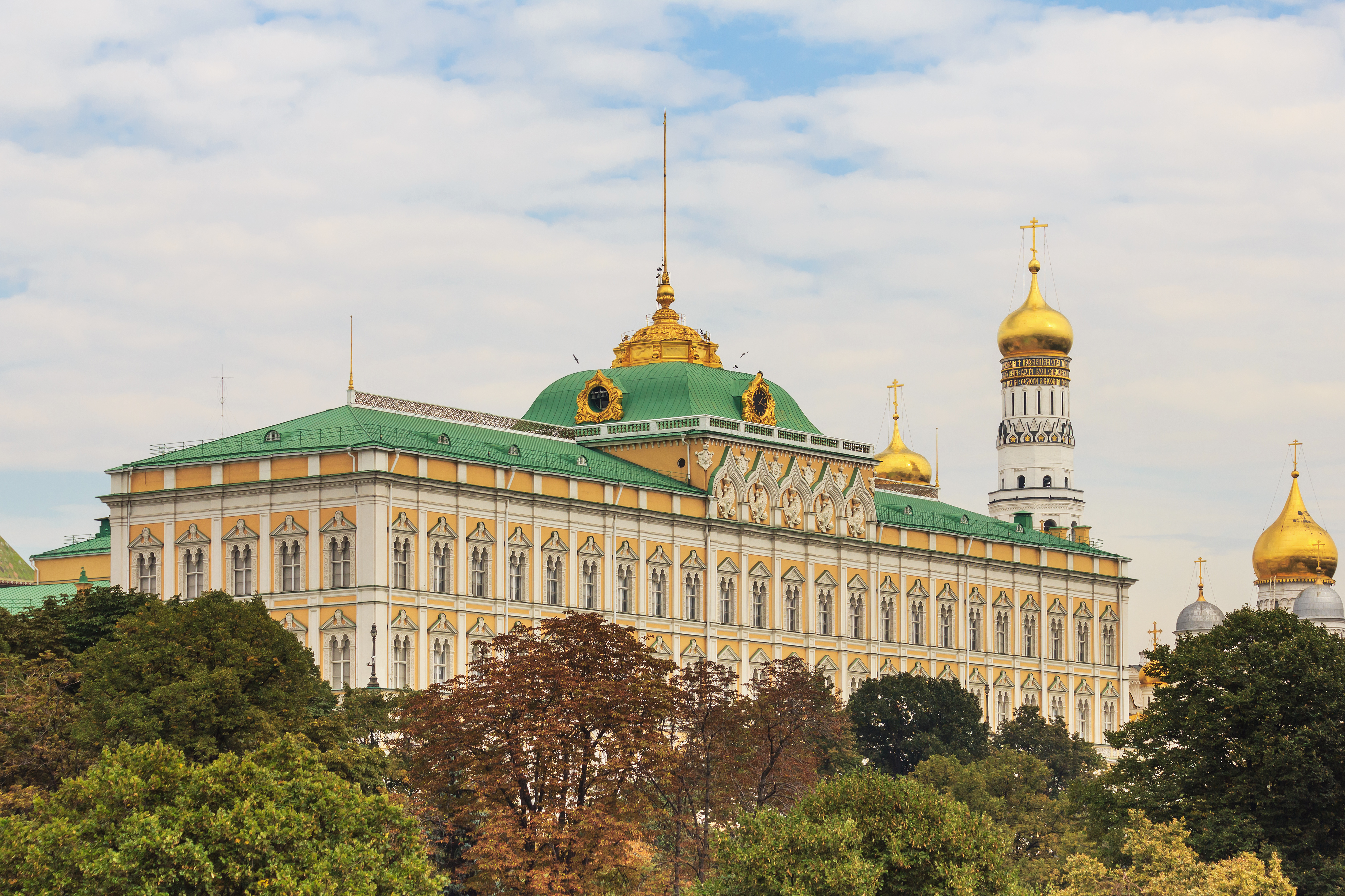 Moscow, Russia. Grand Kremlin Palace.